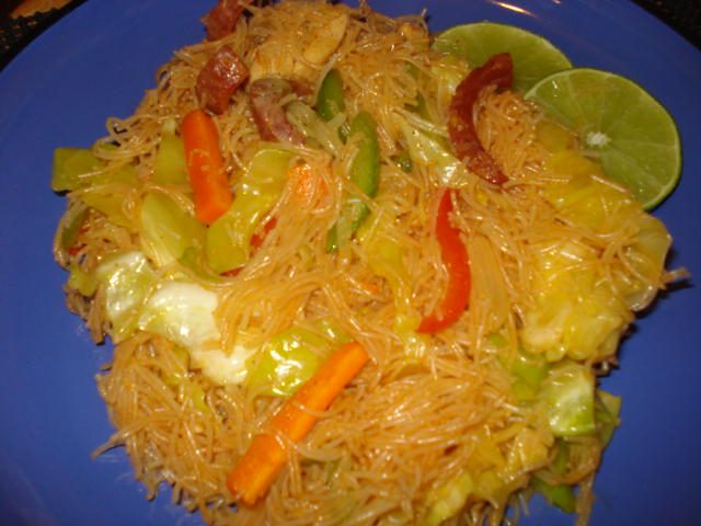 Very thin rice noodles fried with soy sauce and some citrus (kalamansi) and possibly with patis (fish sauce), and some variation of sliced meat and chopped vegetables